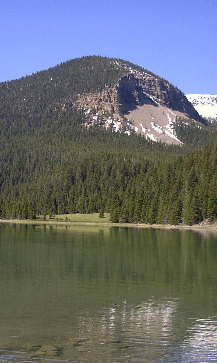 Crystal Lake in the Big Snowies, USFS Photo